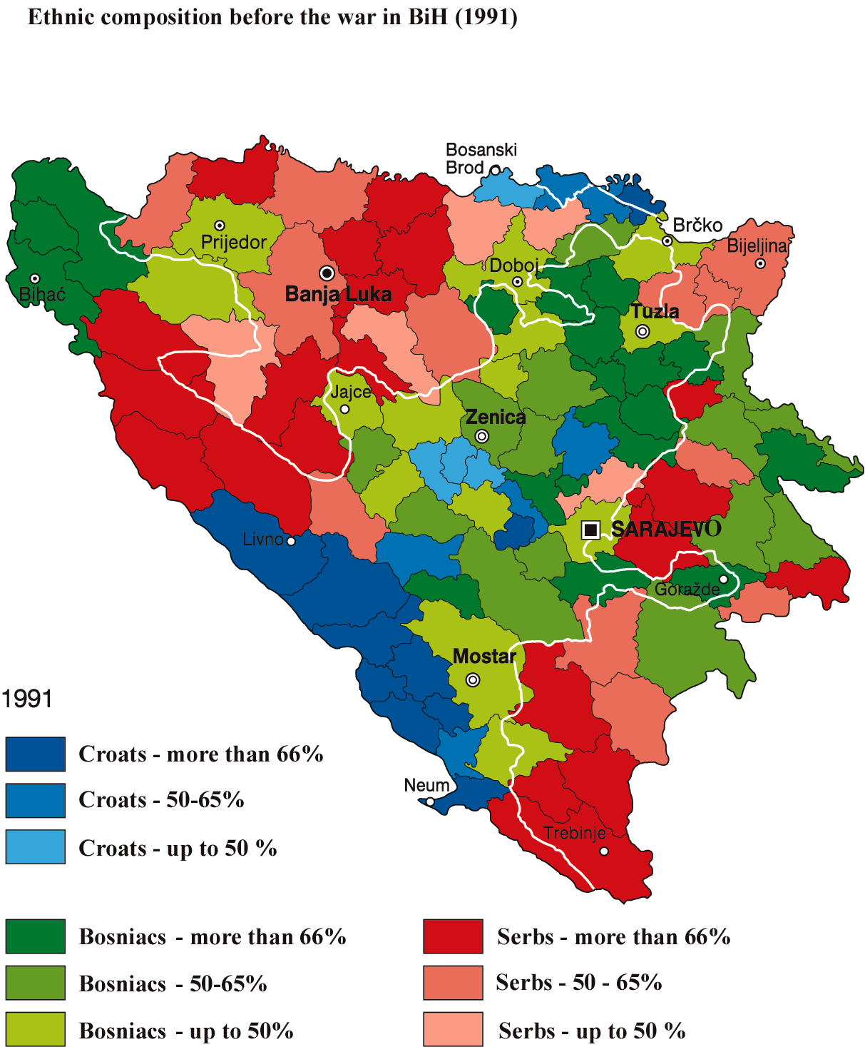 Ethnic Composition of Bosnia & Herzegovina according to the 1991 census.